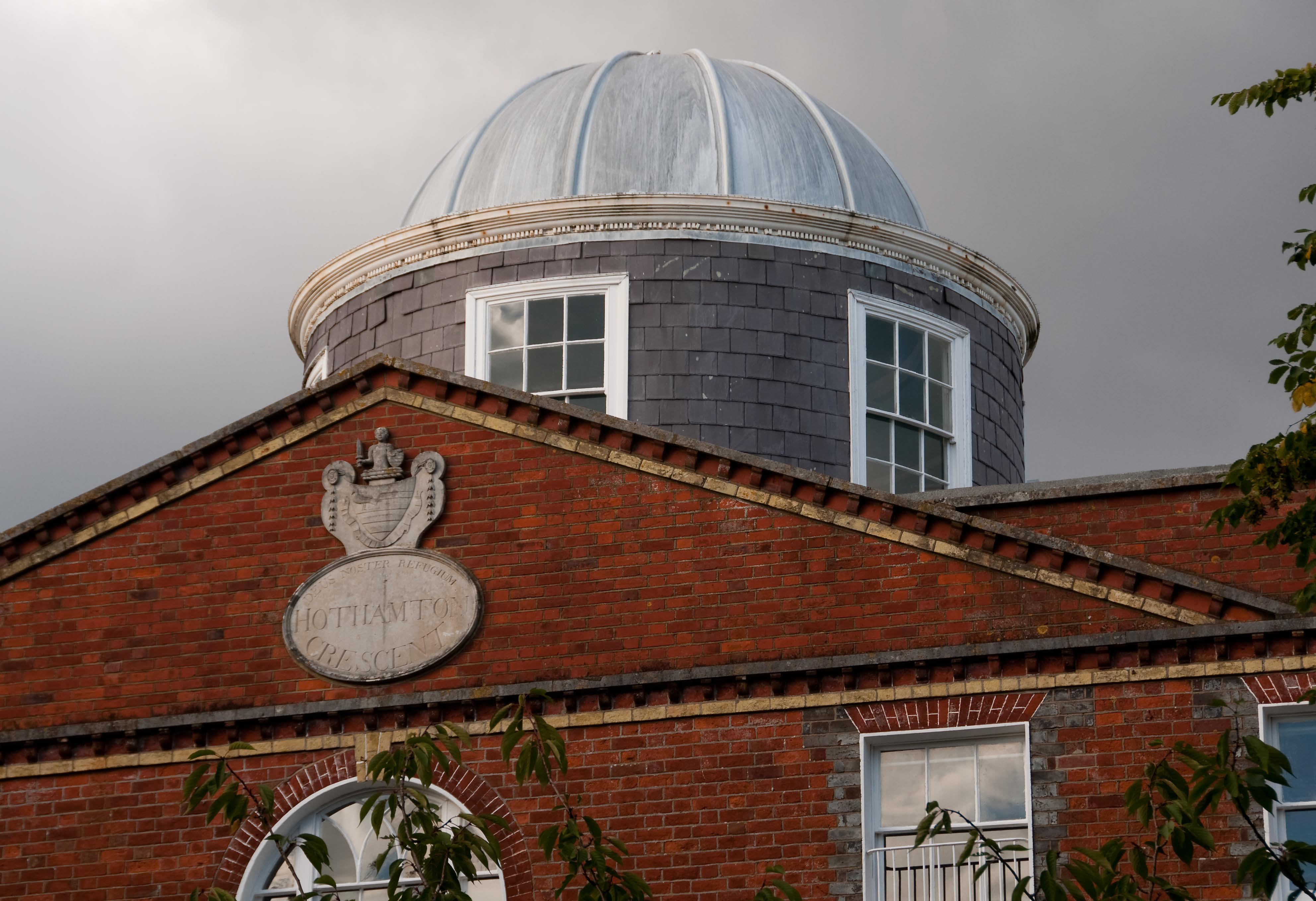 The Dome seen from the Southeast